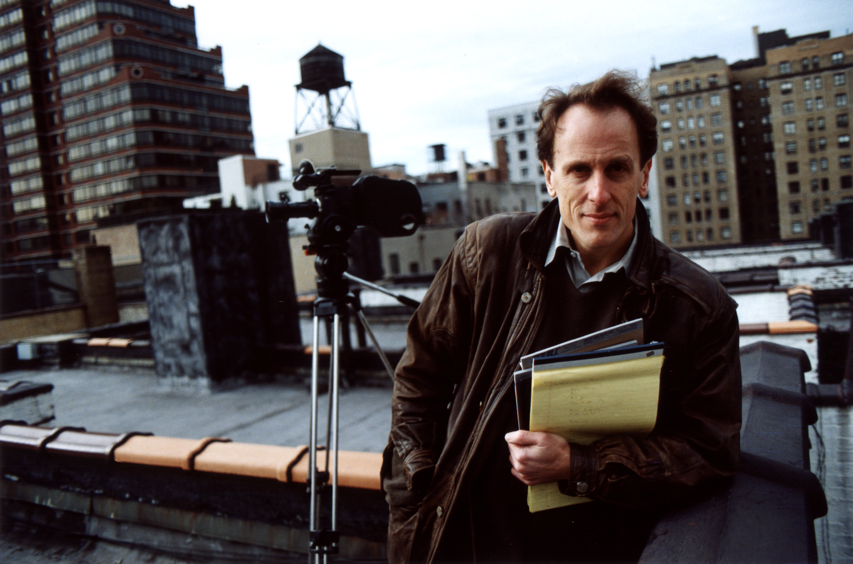 Picture of Thomas Lennon referenced in Wikipedia Article Thomas Lennon II and Thomas Furneaux Lennon- I am the author of these articles